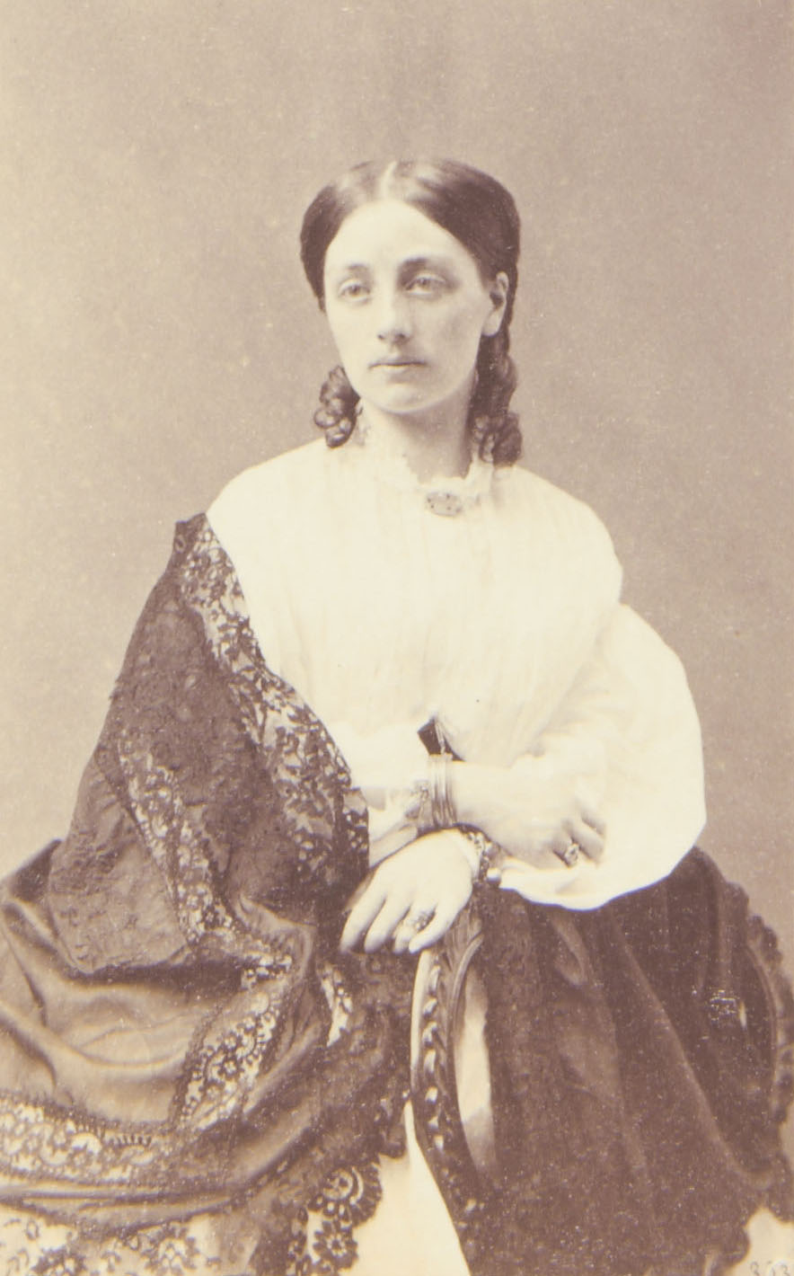 Marie, Princess of Leiningen